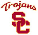 logo for USC